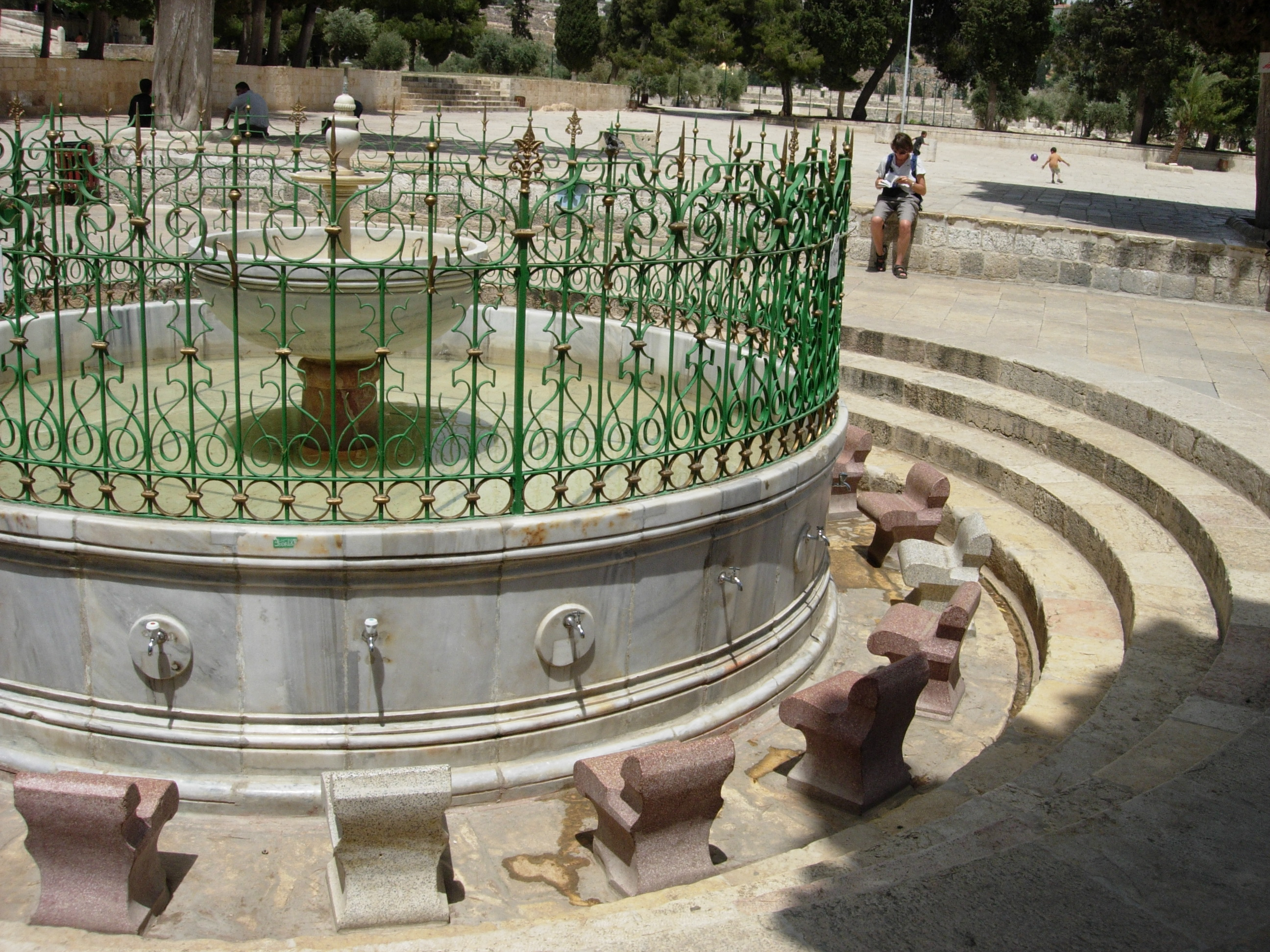 Washing station on the Temple Mount, Jerusalem, Israel.